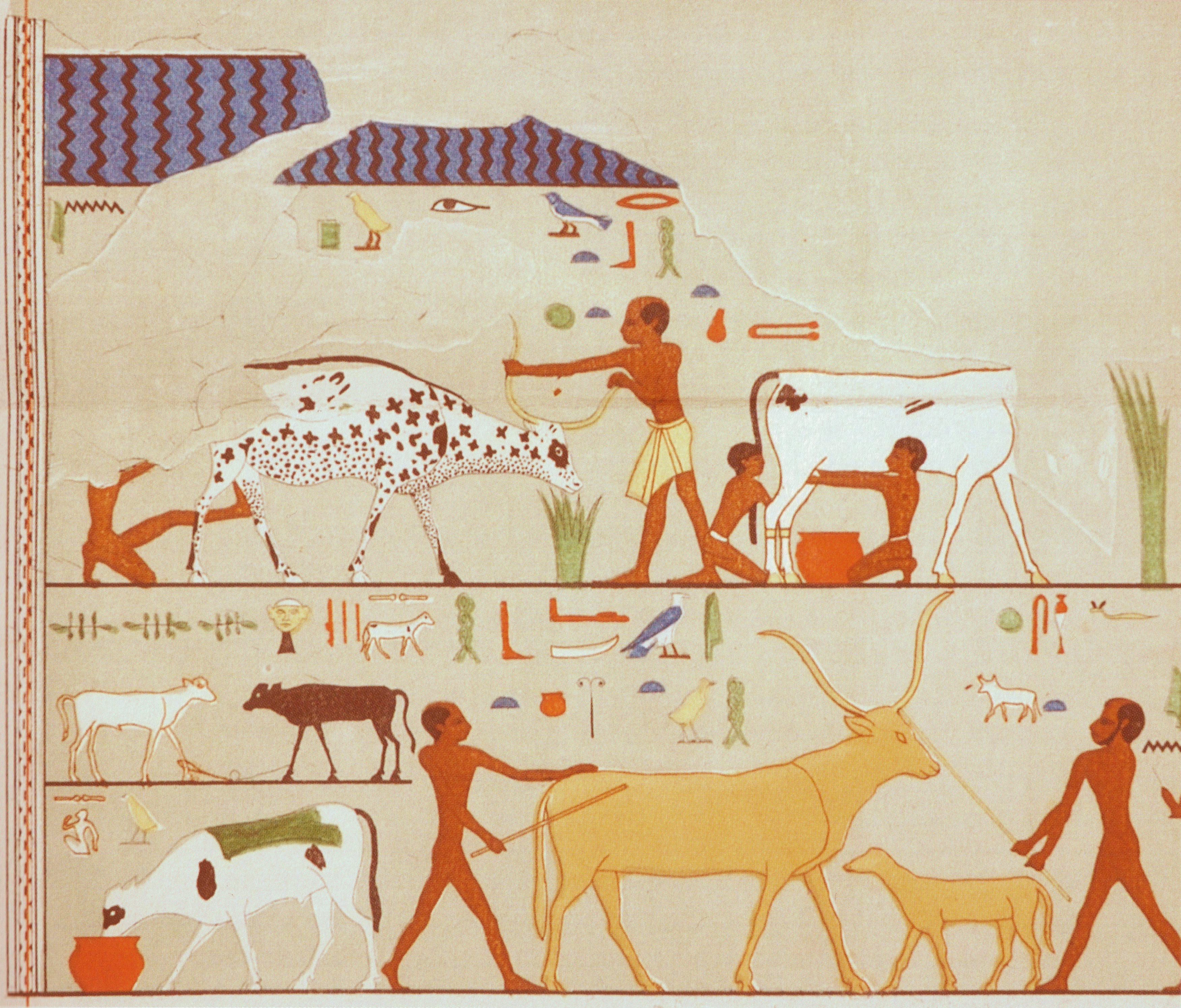 Scenes painted on white plaster. The mastaba of the official and priest Fetekti. Fifth Dynasty. Abusir necropolis, Egypt.